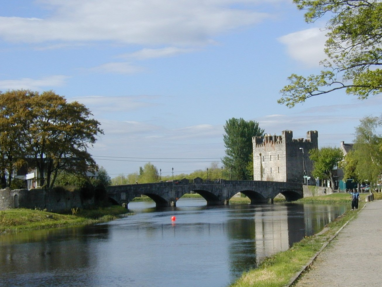 Crom Abu Bridge and White's Castle, a tower house built in 1417 by the Gerald FitzGerald, 8th Earl of Kildare